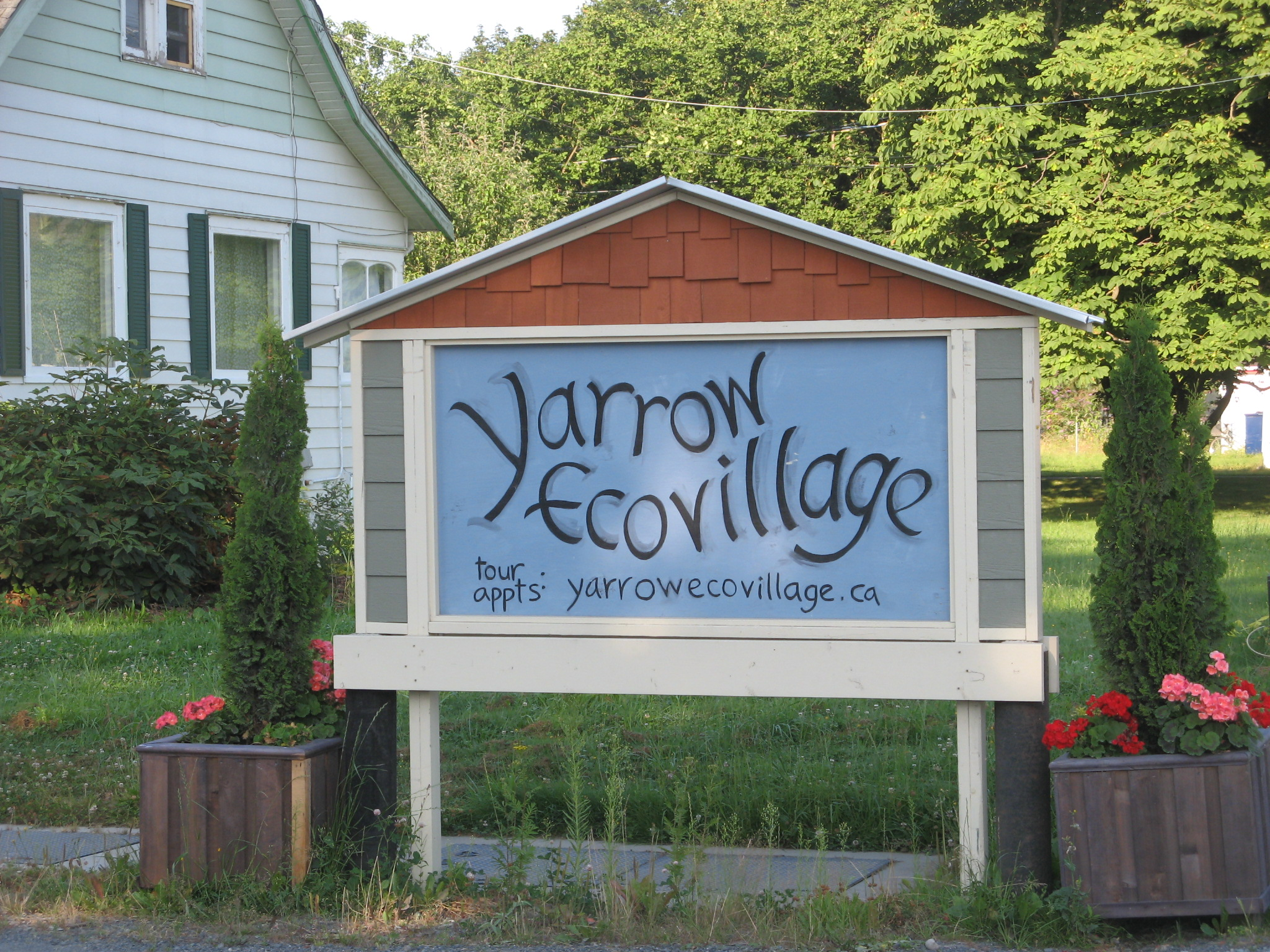 Welcome sign at the entrance to the property